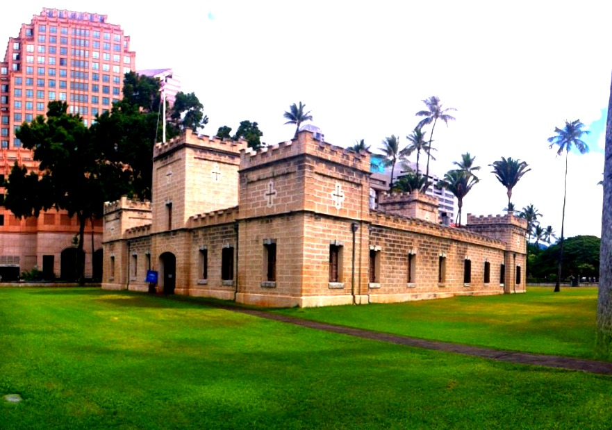 Iolani Barracks Fall 2011